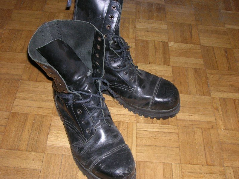 My friend's combat boot.